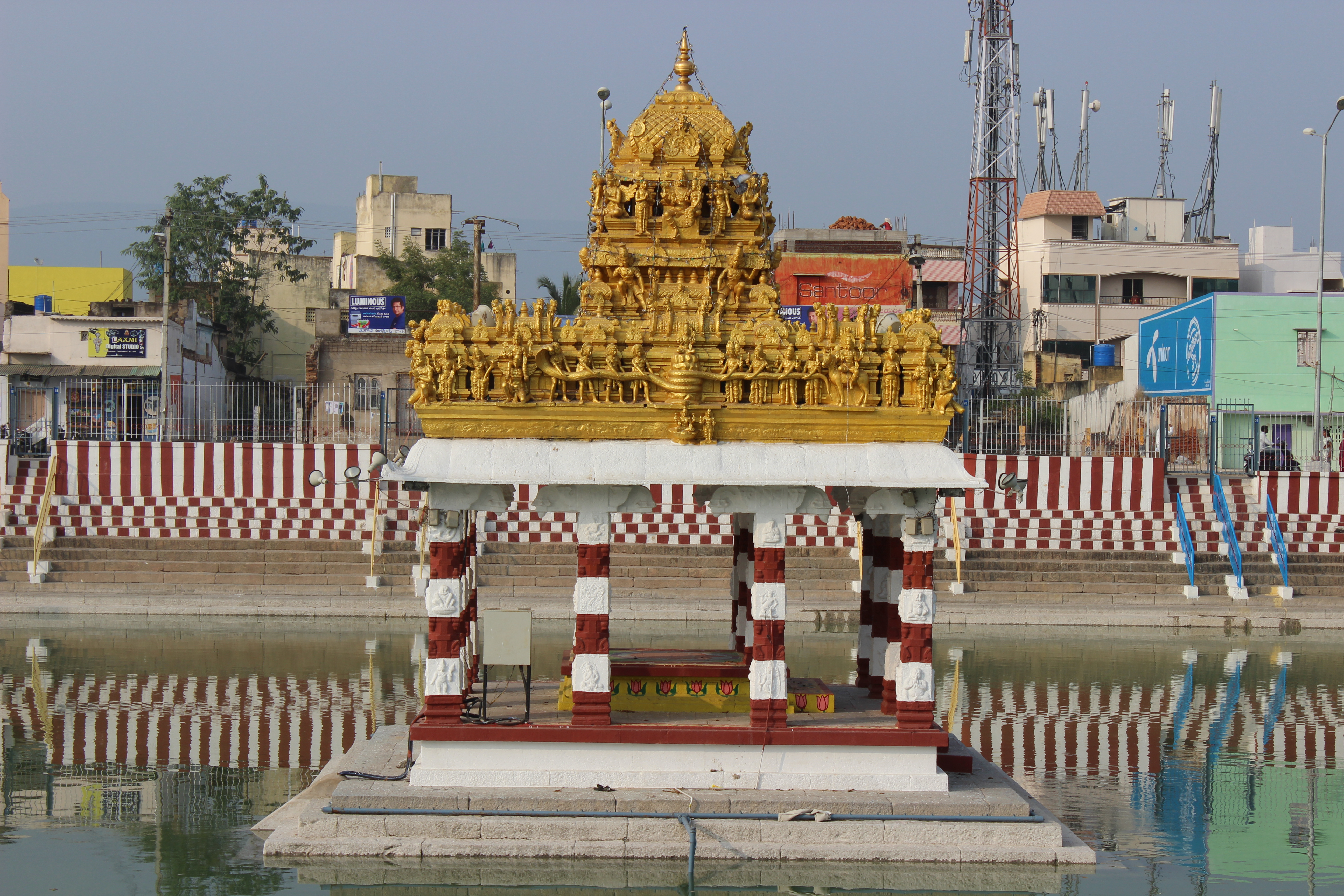 Thiruchanur